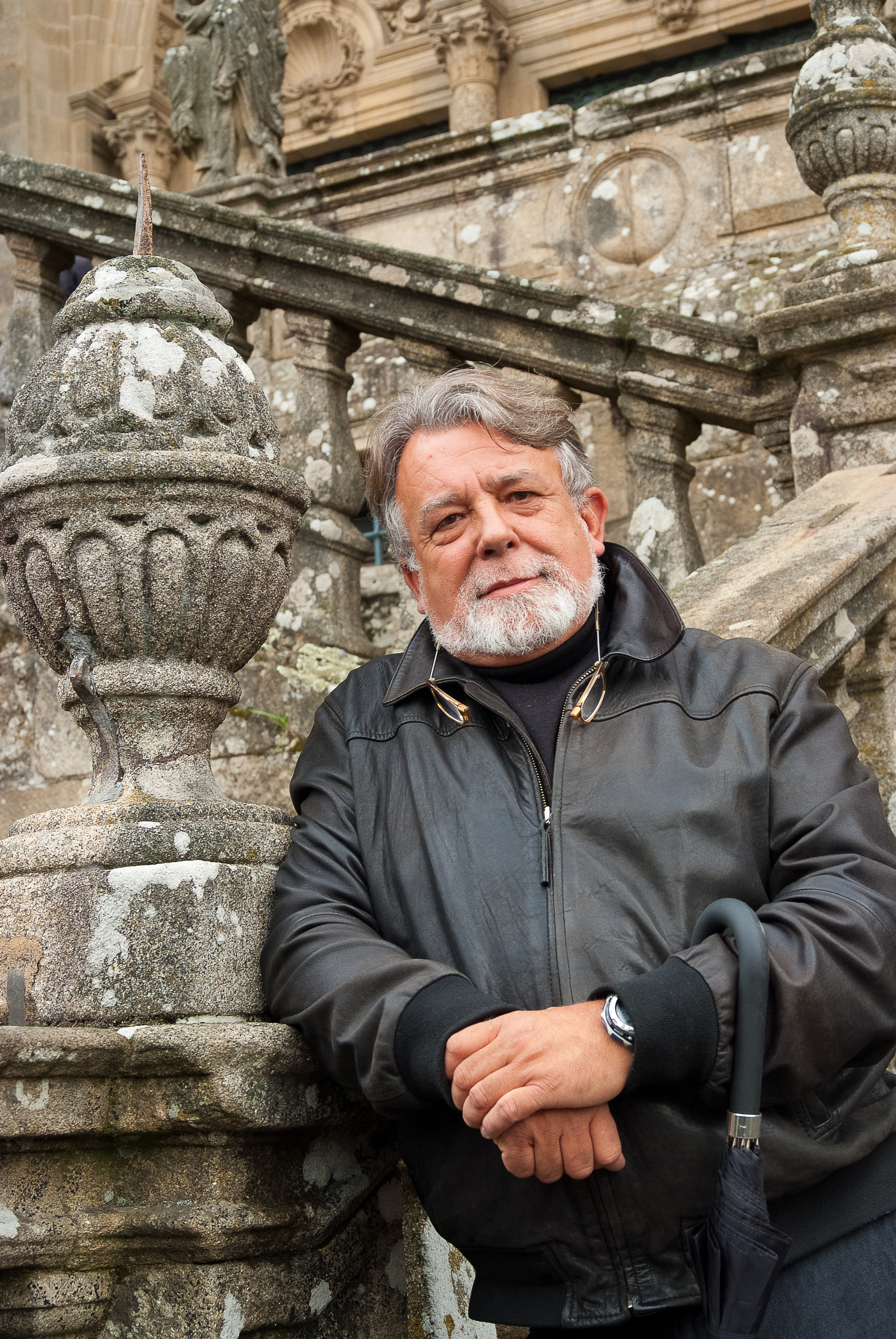 Photograph of Alfredo Conde